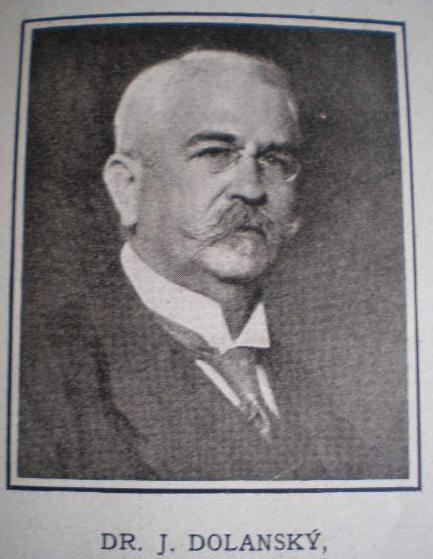 Josef Dolanský (1868-1943). Czech politician.